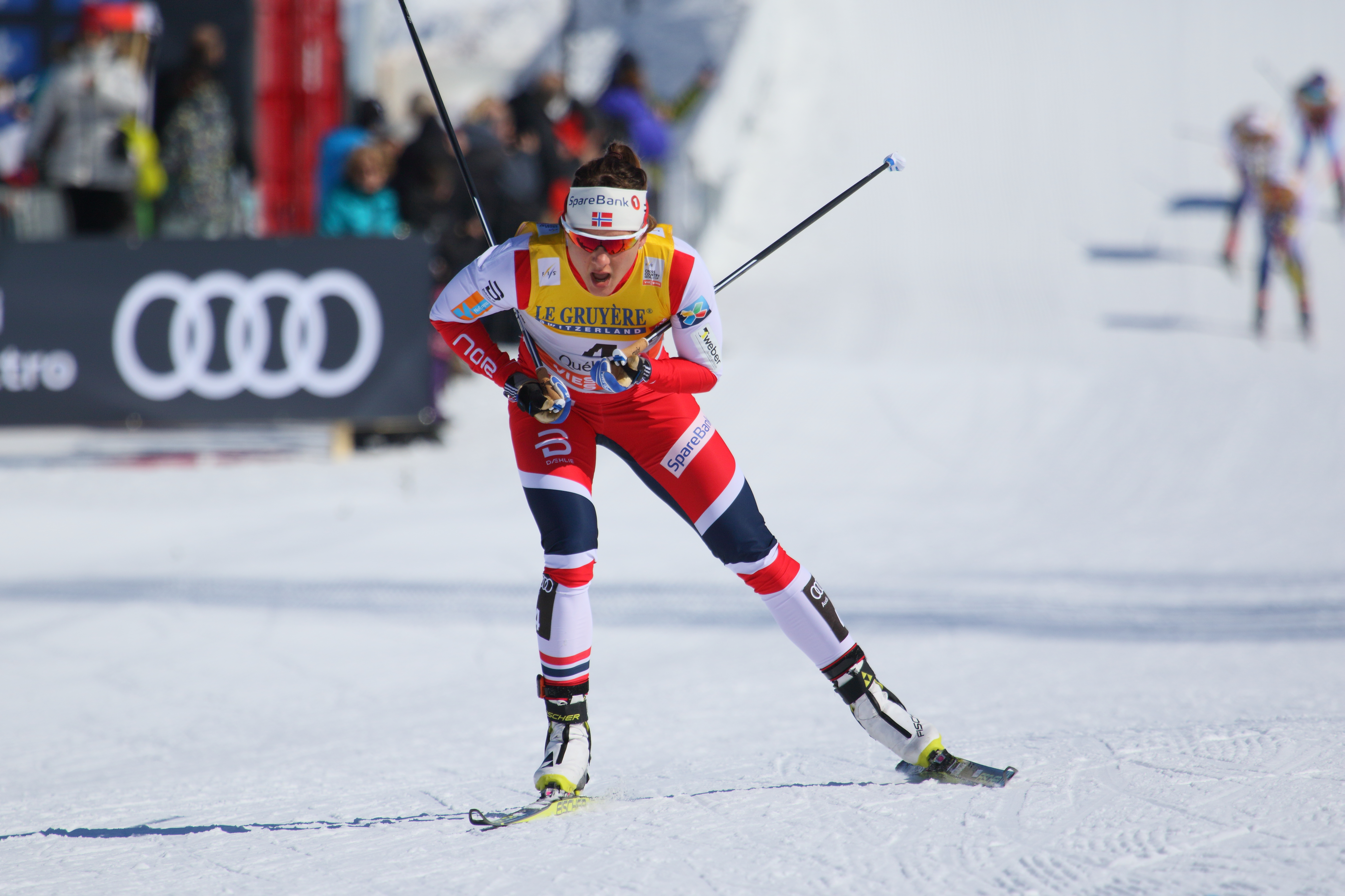 Maiken Caspersen Falla, 2017 Ski Tour Canada, Quebec City